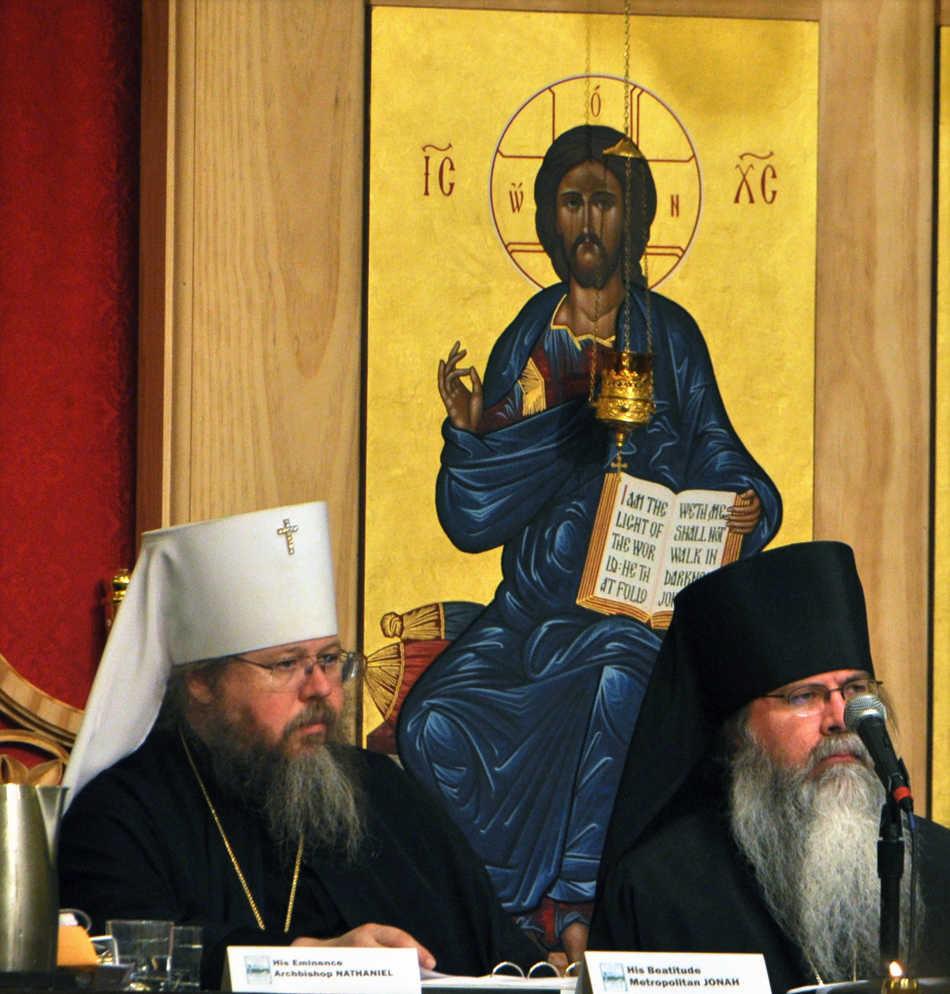 Metropolitan Jonah and Bishop Tikhon